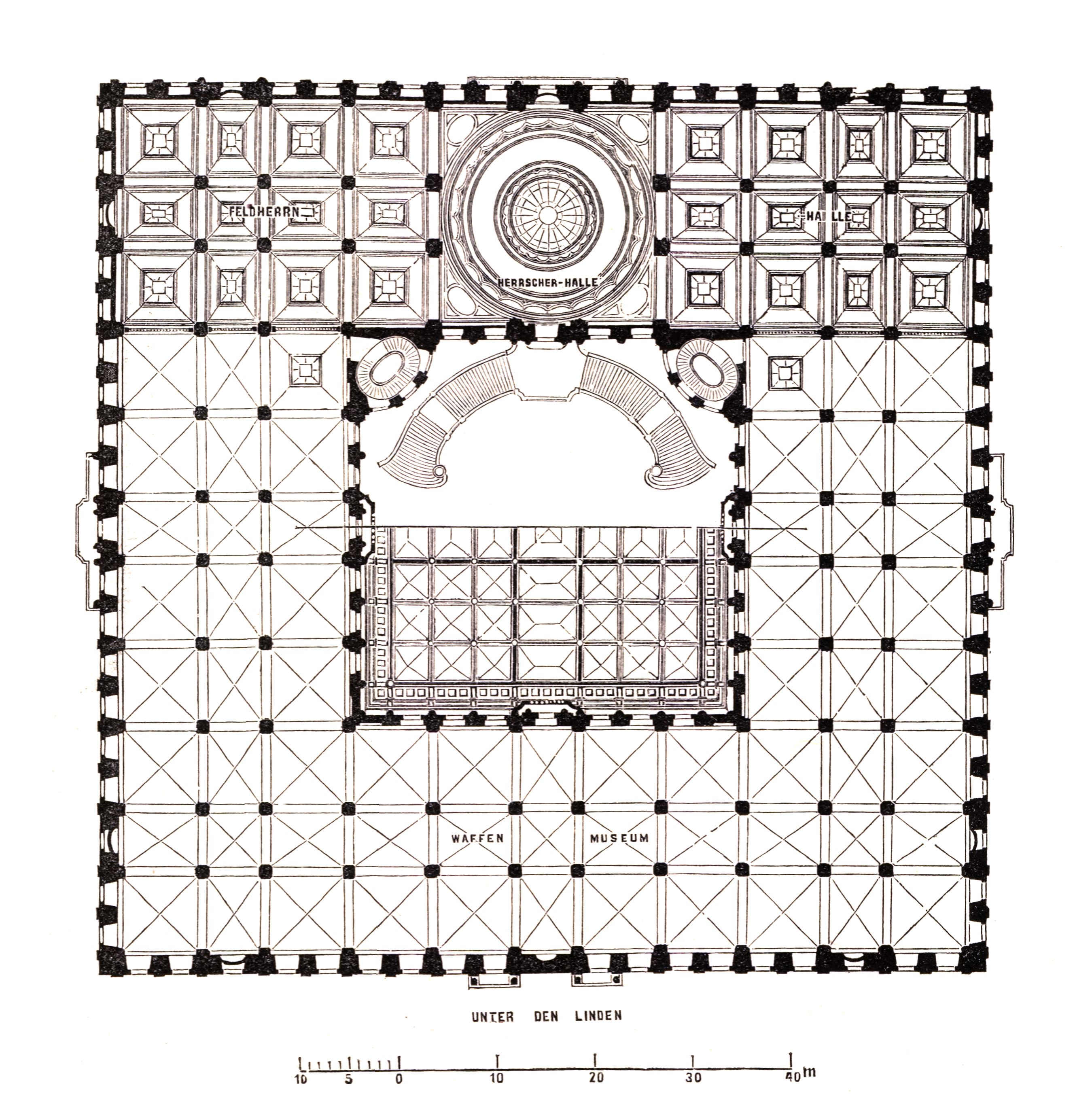 Berlin - Zeughaus, plan first floor after modification by Friedrich Hitzig 1877-1880